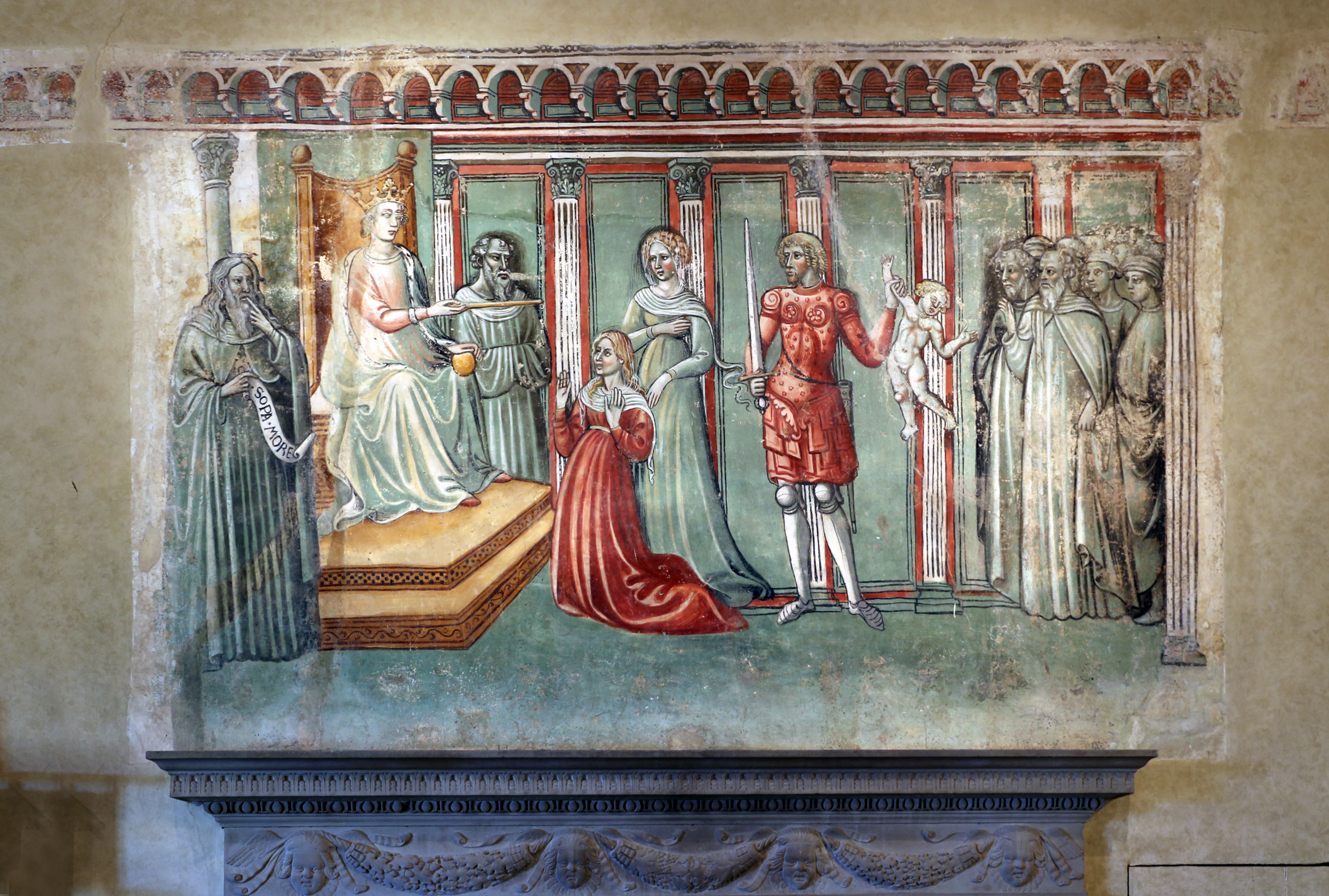 Sant'Andrea a Cercina - Ex-refectory